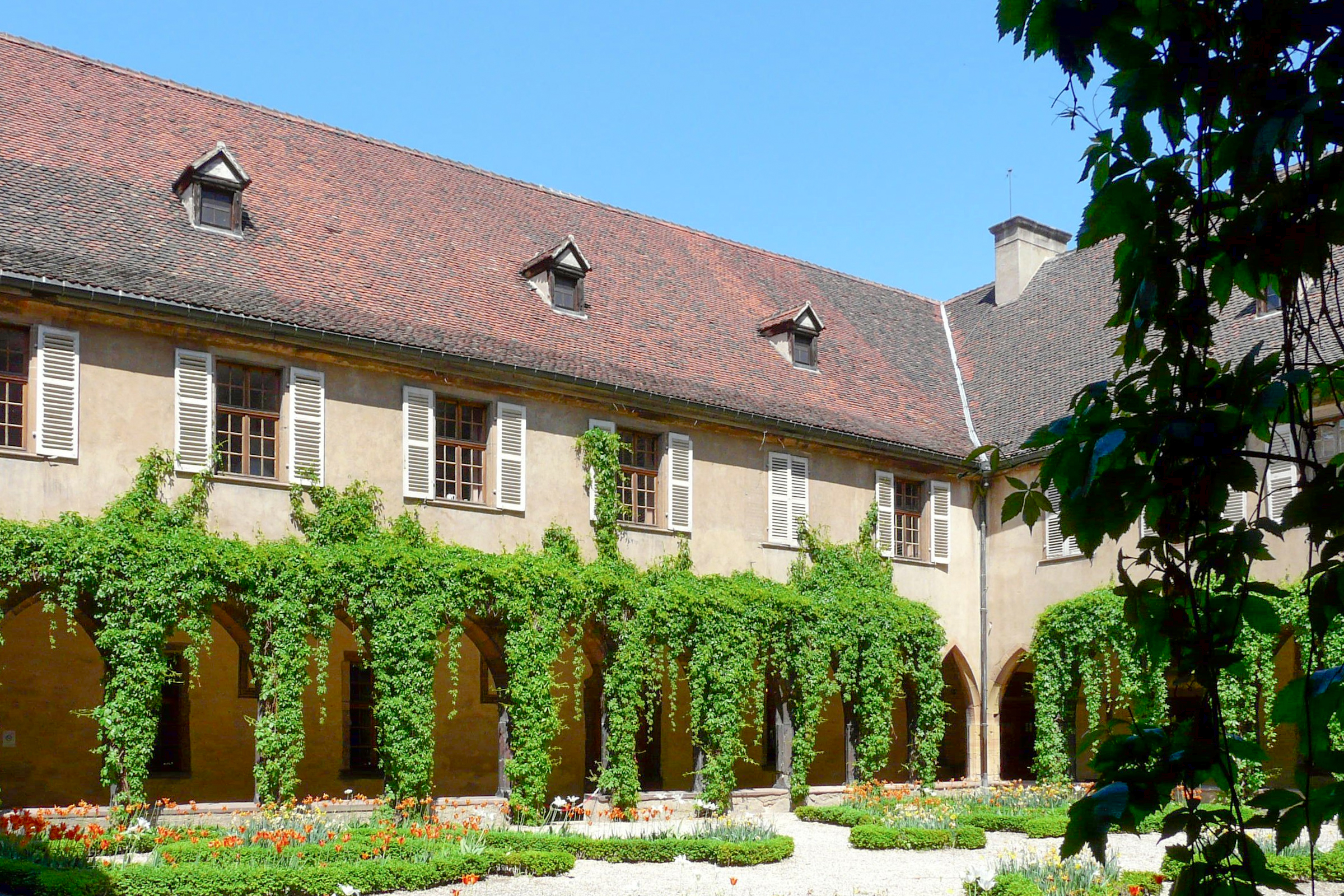 Cloister of the convent of the Dominicans in 1 place des Martyrs-de-la-Résistance in Colmar (Haut-Rhin, France). .